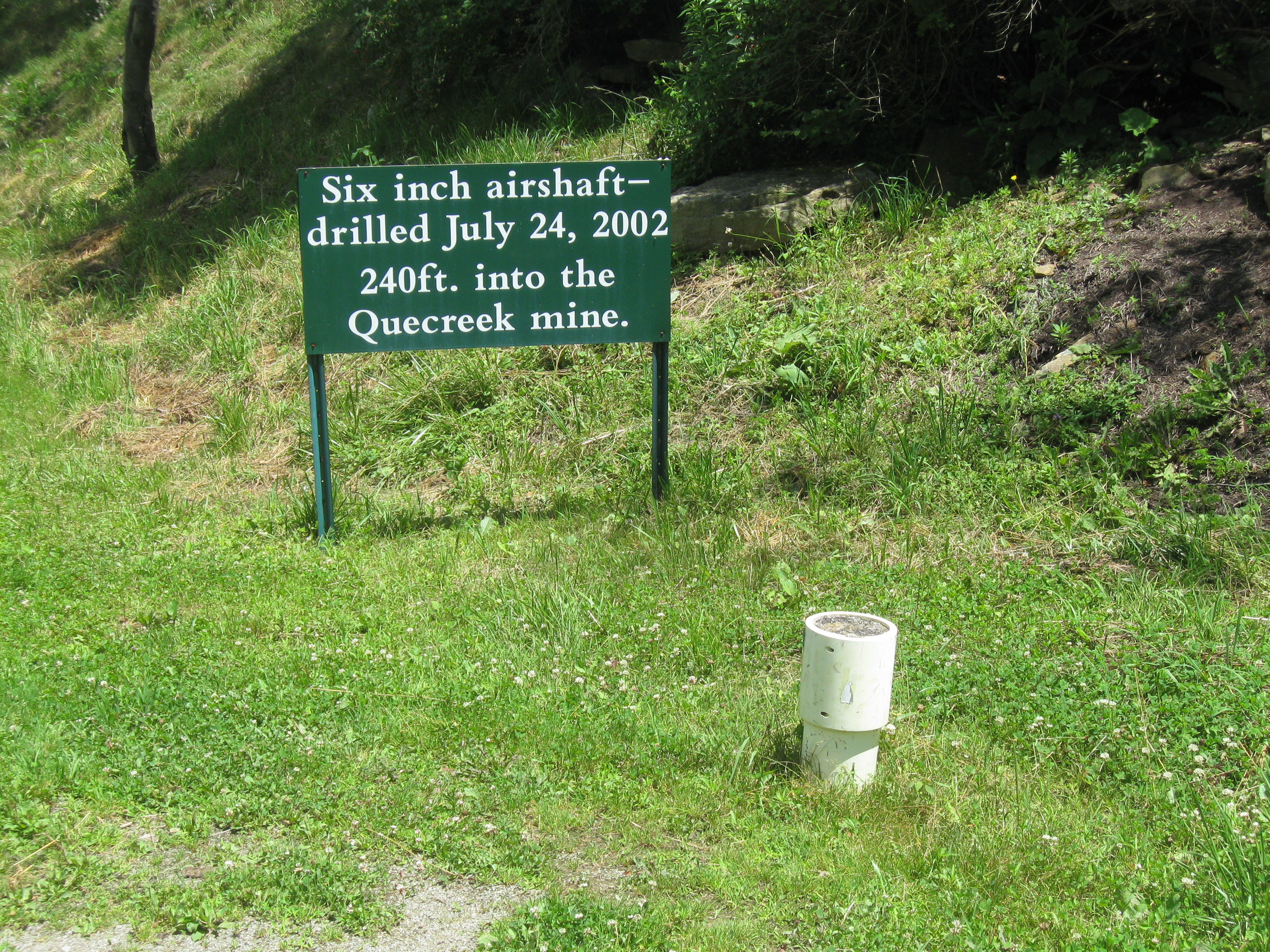 The six-inch, 240 foot air shaft drilled in 2002 at the Quecreek Mine Rescue site as part of the initial response. It was designed to get air to the nine miners trapped below.